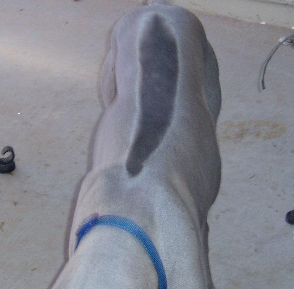 Anterior dorsal view of back ridge